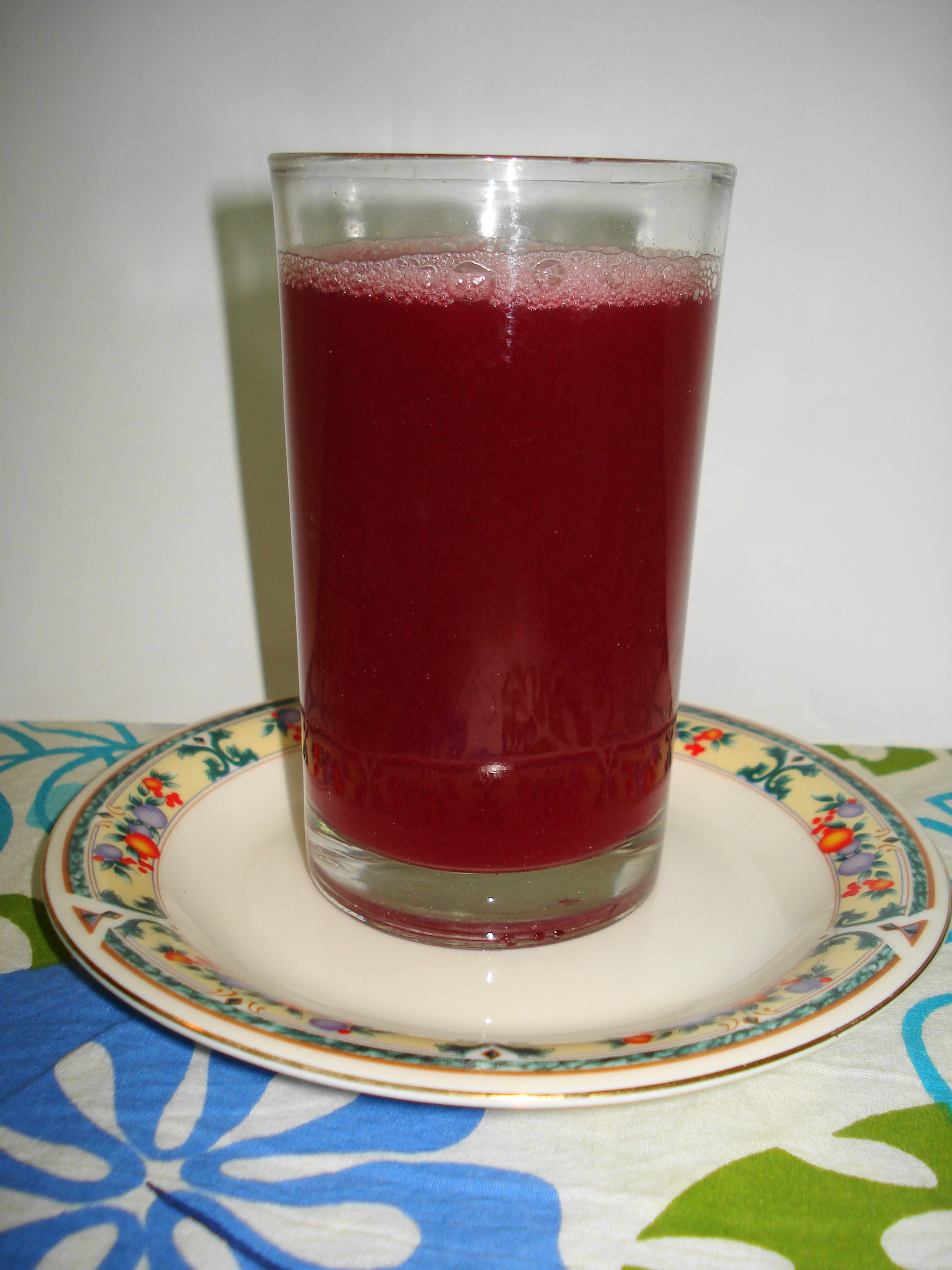 Taza anar Ka Juice, Pomegranate juice can easily be extrated from pomegranate seed, Separate seeds , take a muslim cloth folded into two layers, press againt a large plate , fresh juice with eye appealing colors will squeze out from seeds. Normaly 1 large pomegranate gives 1 glass of juice.